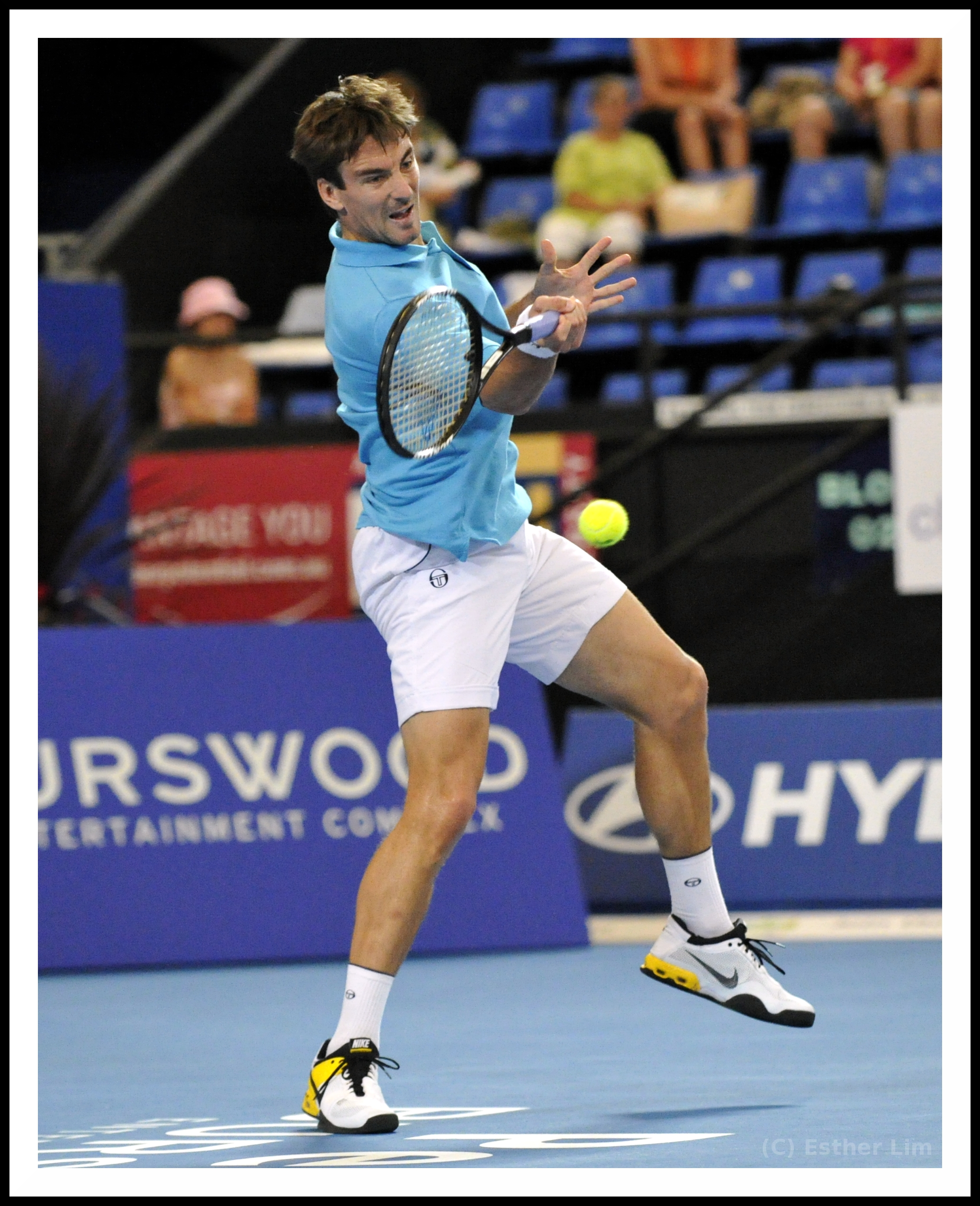 Returning a shot.